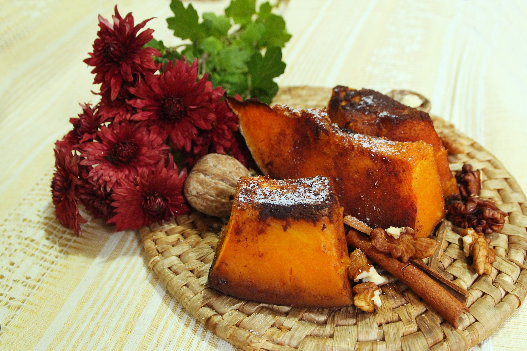 Baked pumpkin with powdered sugar and cinnamon